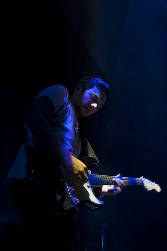 Band: Bamboo Event: Our company's site recognition Date: July 4, 2009 Location: CAP Convention Center, Baguio City